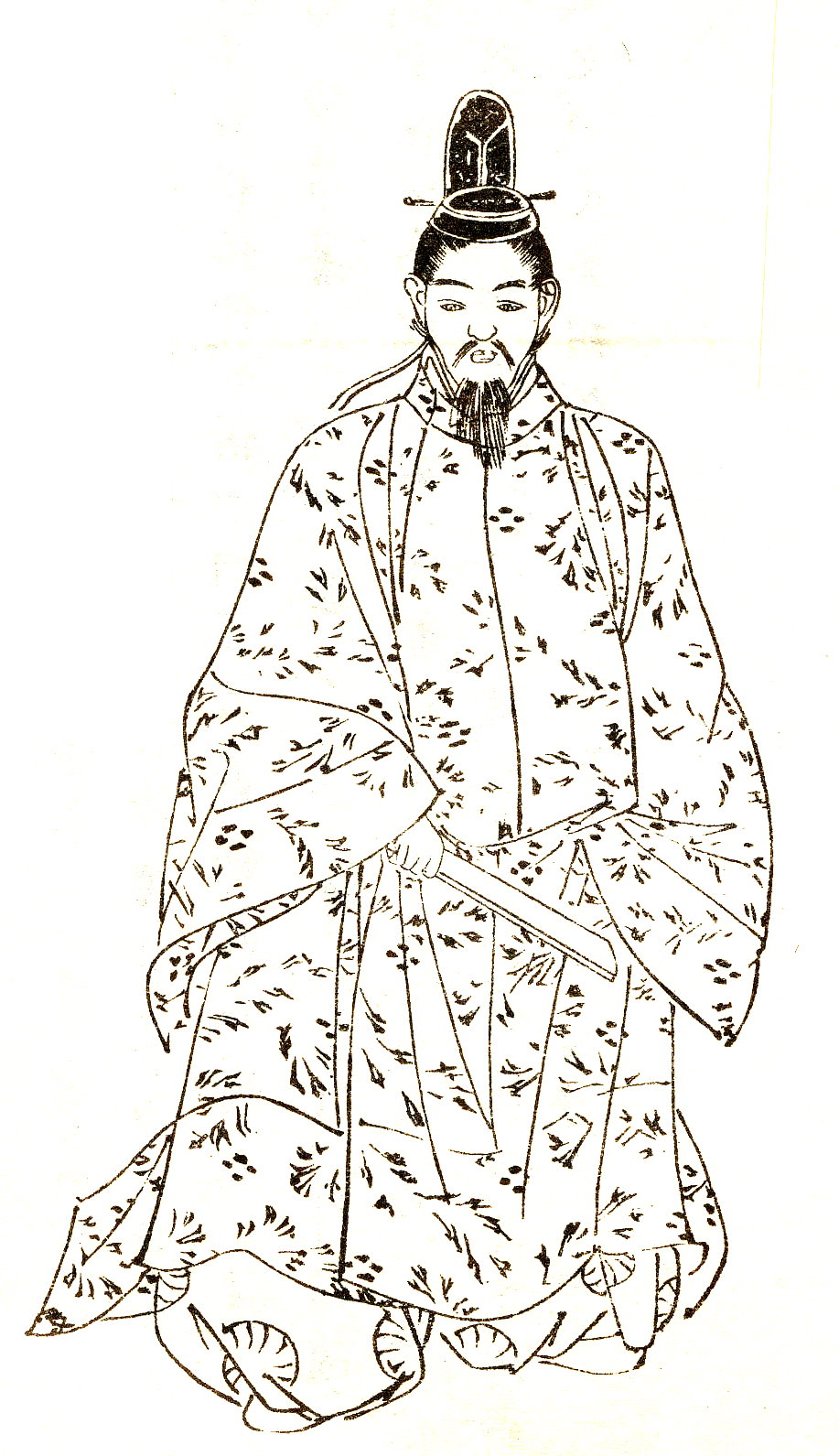 Fujiwara no Kinto (藤原公任) also known as Shijō-dainagon, was a poet and a court bureaucrat of the Heian period. This picture was drawn by Kikuchi Yosai（菊池容斎） who was a painter in Japan.